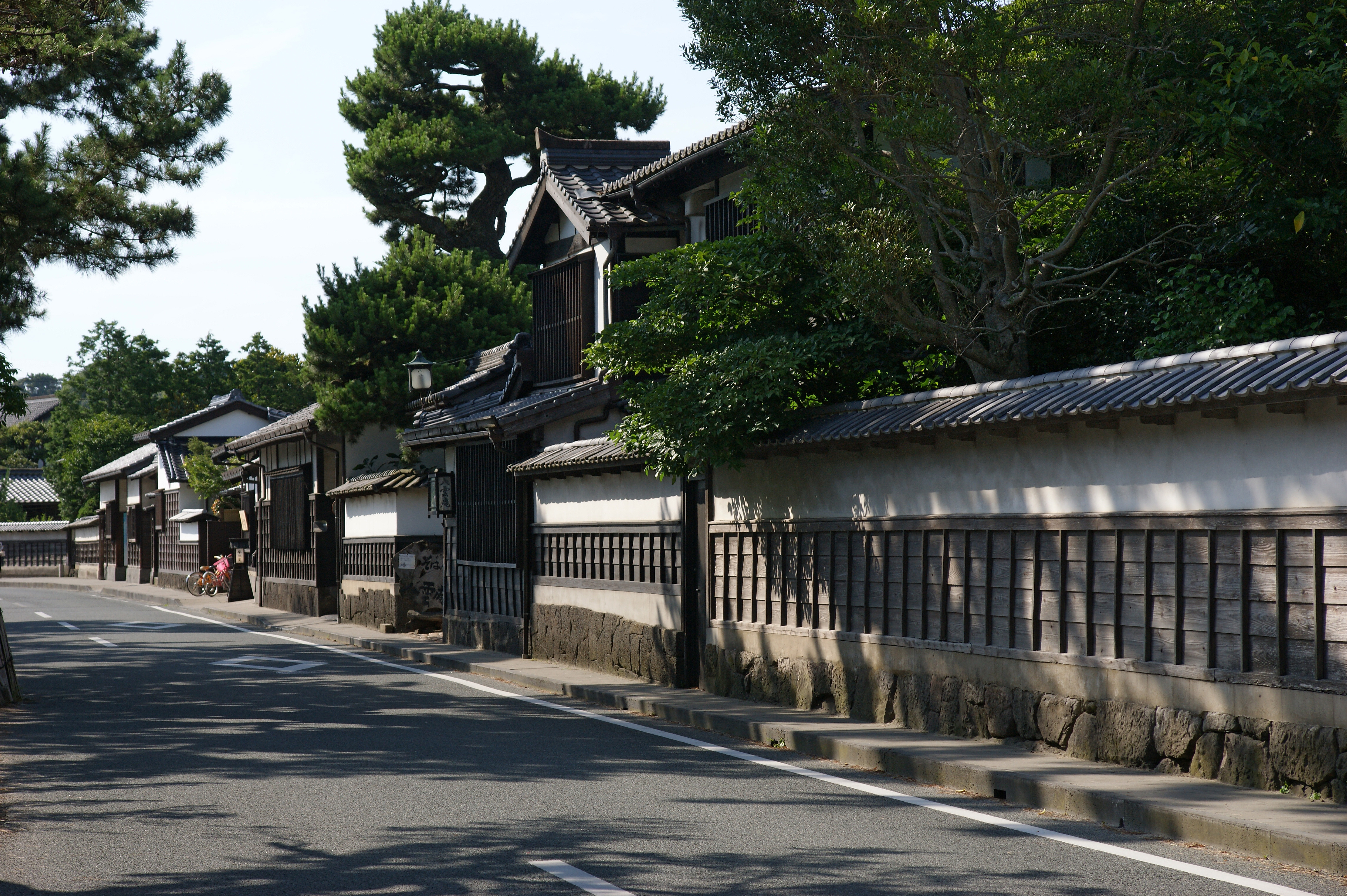 At Shiominawate, Matsue, Shimane prefecture, Japan